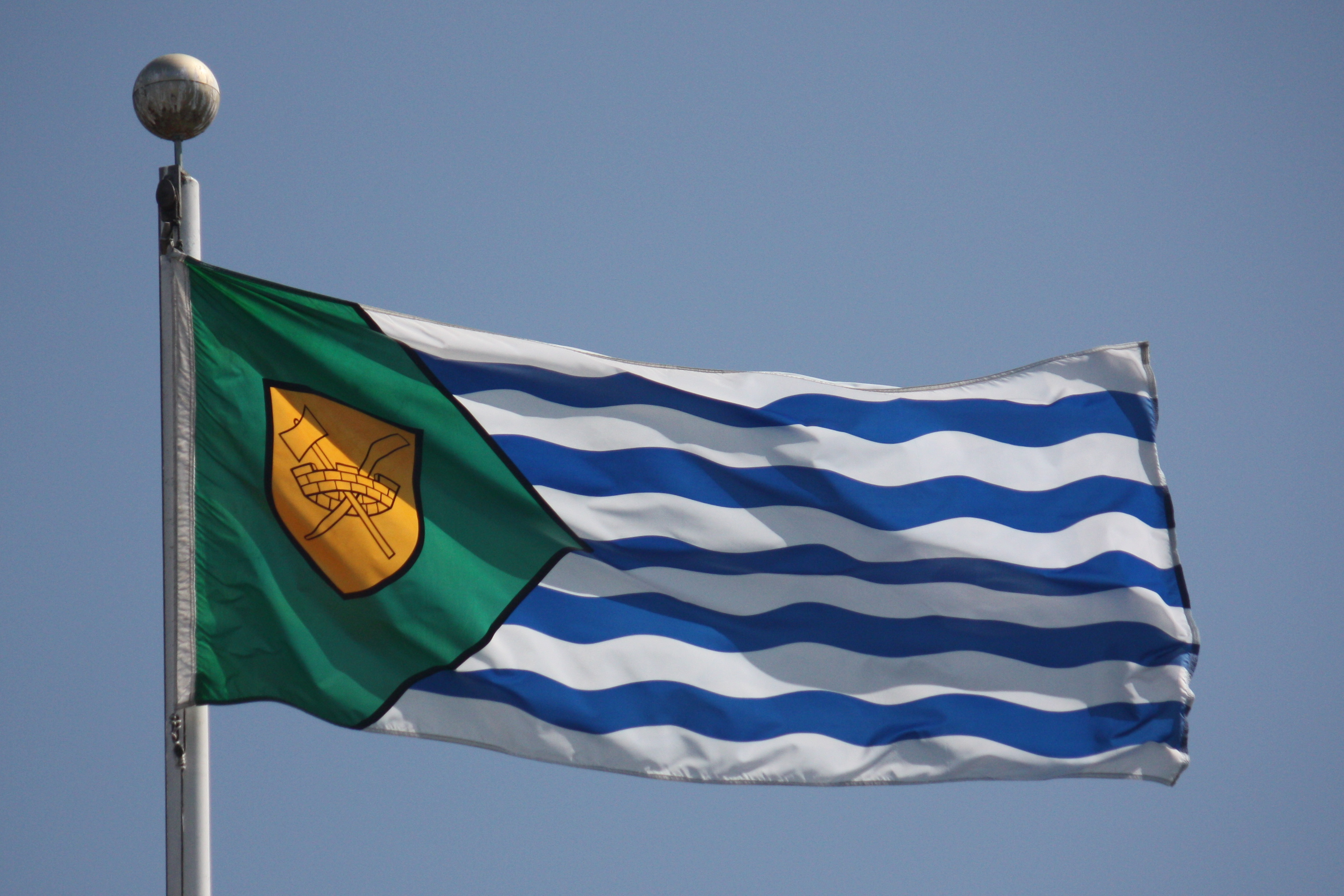 The flag of Vancouver flying in Vanier Park, near downtown Vancouver